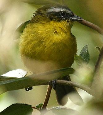 Superciliaried Hemispingus (Hemispingus superciliaris) at Cayambe-Coca Reserve, near Papallacta Pass, Ecuador.